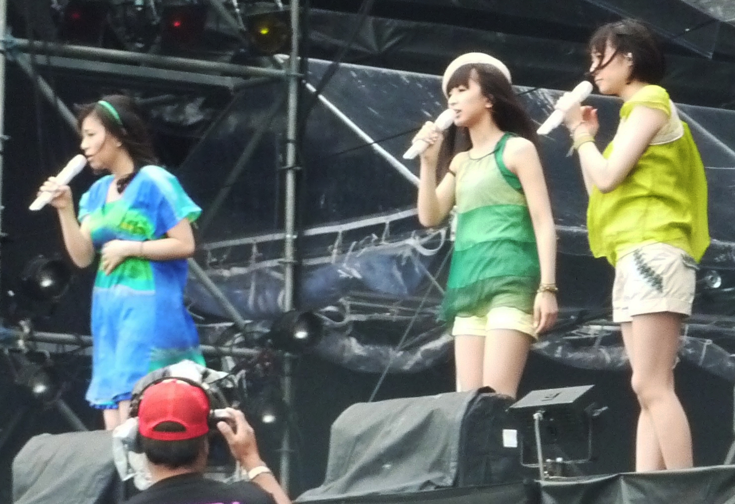 Perfume (Japanese girls group) in ROCK IN JAPAN FES. 2009.